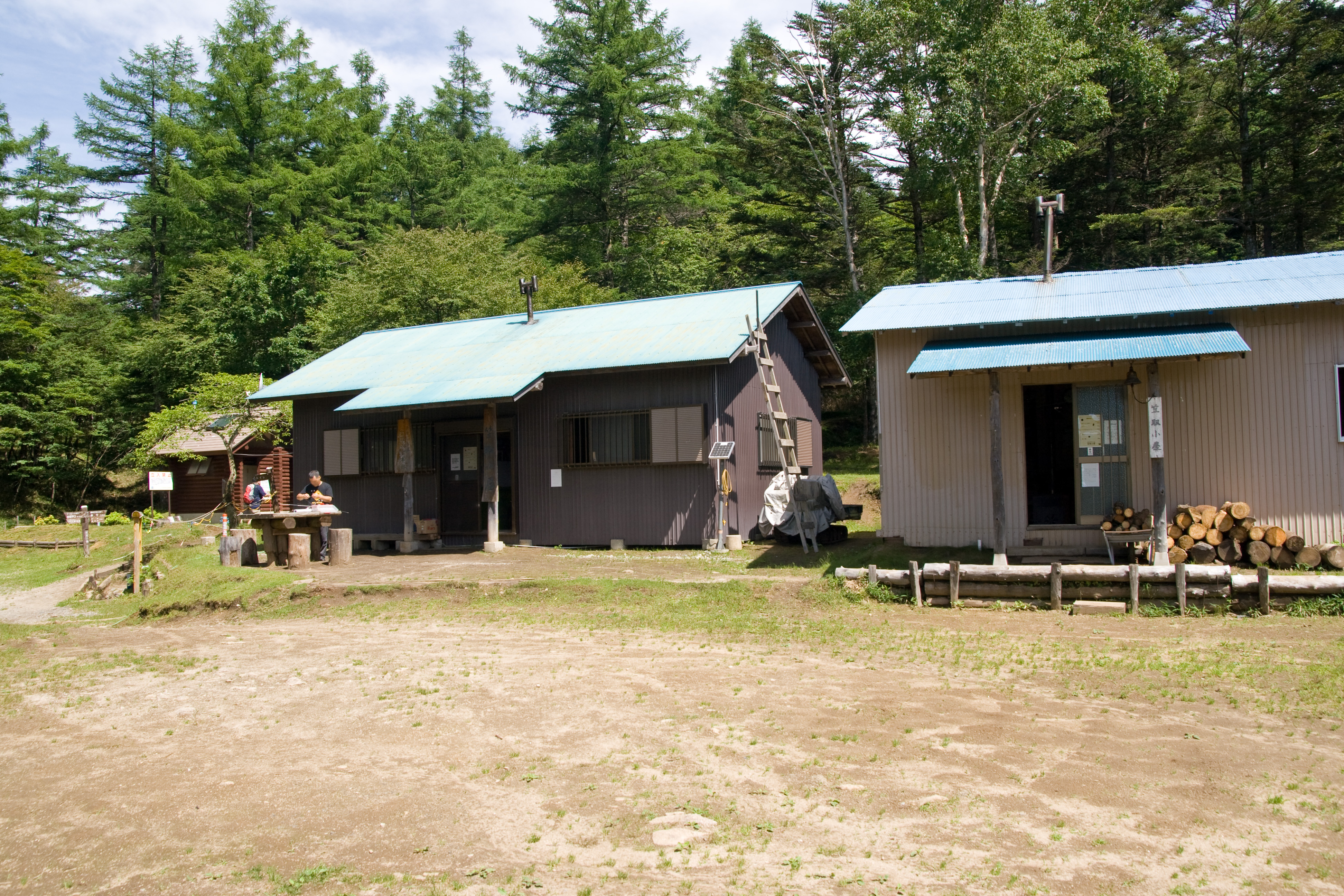 The Kasatori hut (笠取小屋 Kasatori-goya), Okuchichibu Mountains, Honshu, Japan.